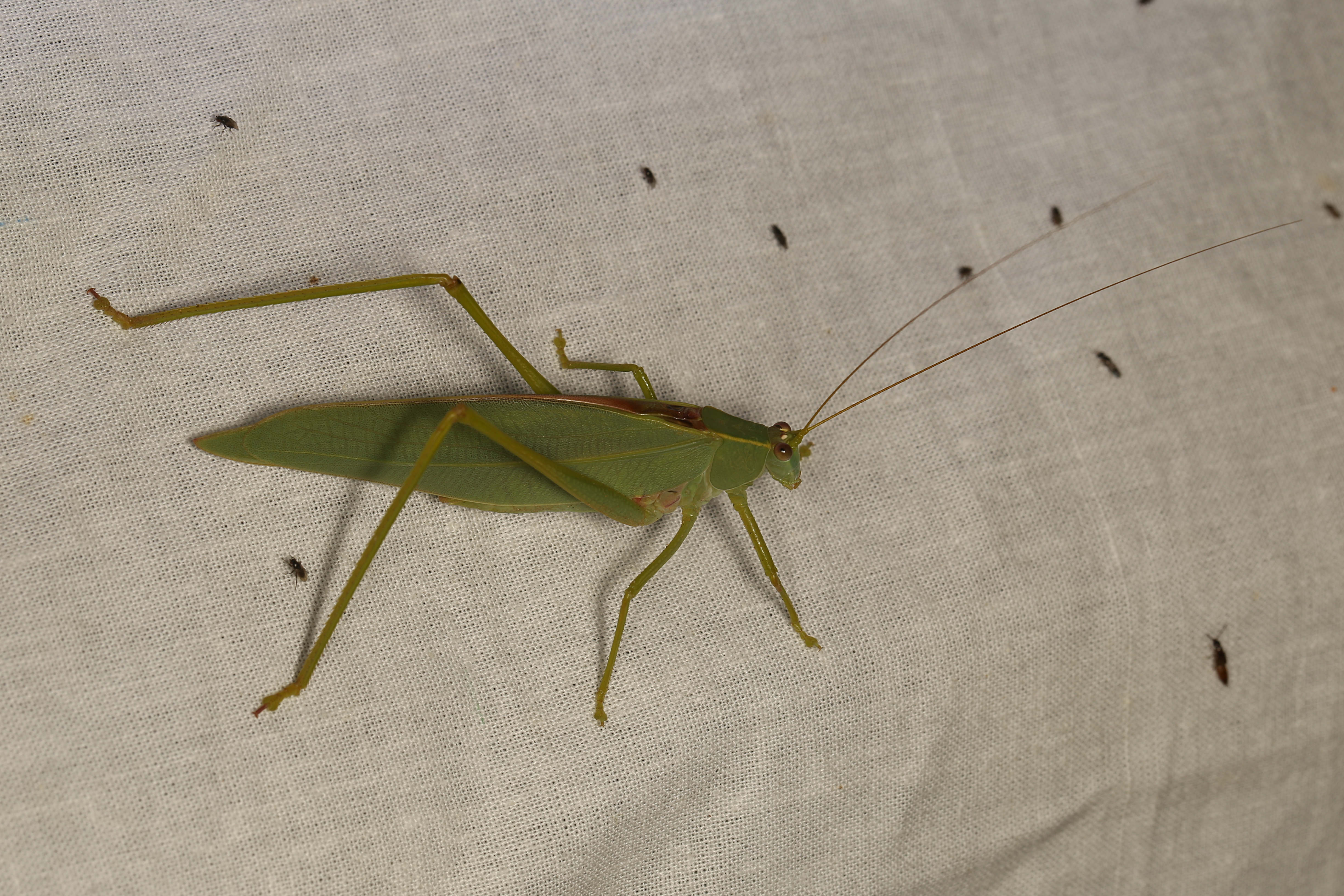 Caedicia simplex (Walker, 1869), to actinic light, Little Desert National Park, VIC, 26 January 2017